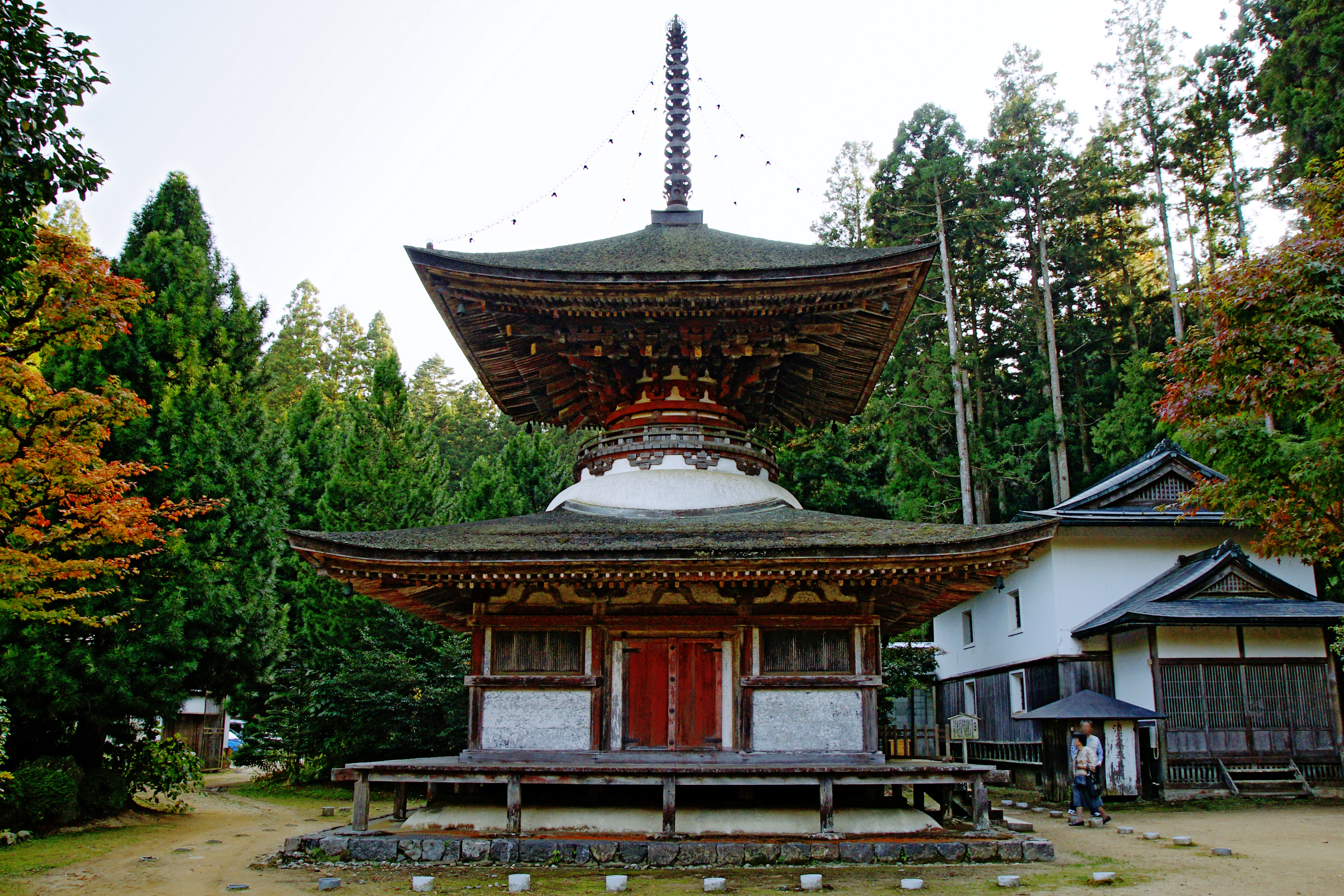 Kongosanmaiin's Two-storied Pagoda (Tahōtō) is a Japan's National Treasure in Koya, Wakayama prefecture, Japan. It was built in 1223.